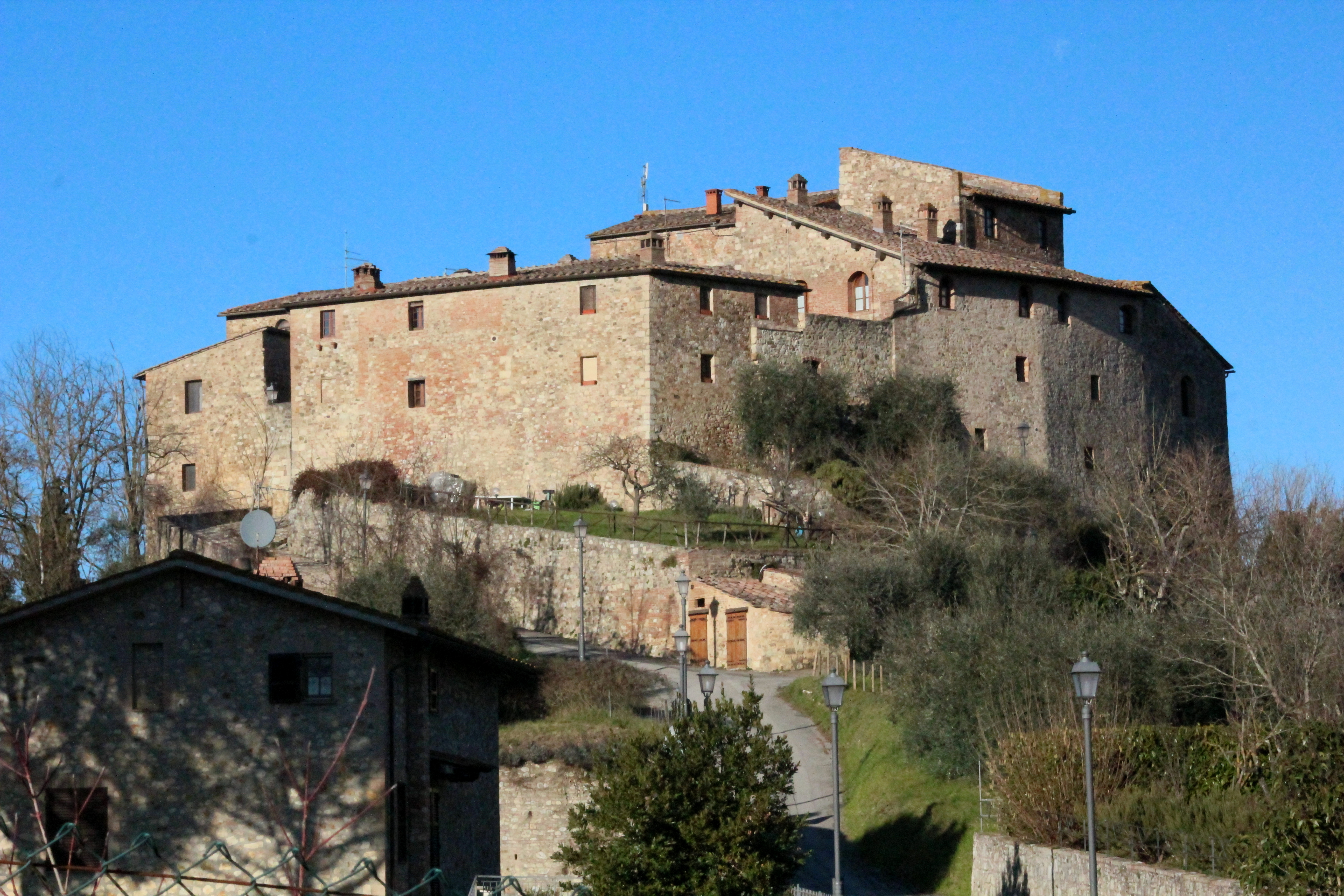 Monteliscai, Village and Castle in the territory of Siena, Province of Siena, Tuscany, Italy